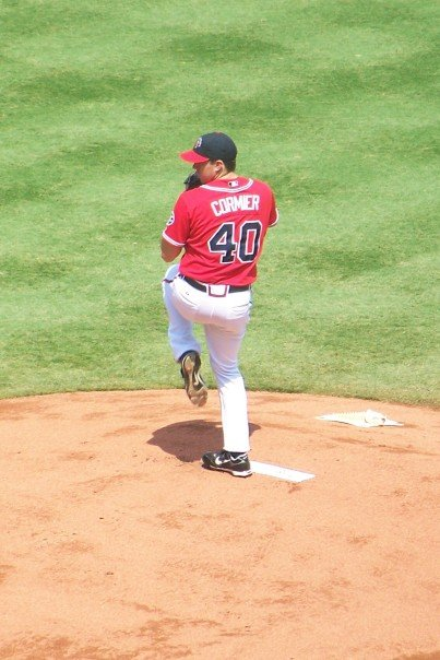 Lance Cormier pitching for the Atlanta Braves on September 9, 2007. 14:32, 10 September 2007 . . UNCCTF . . 403×604 (59 KB)